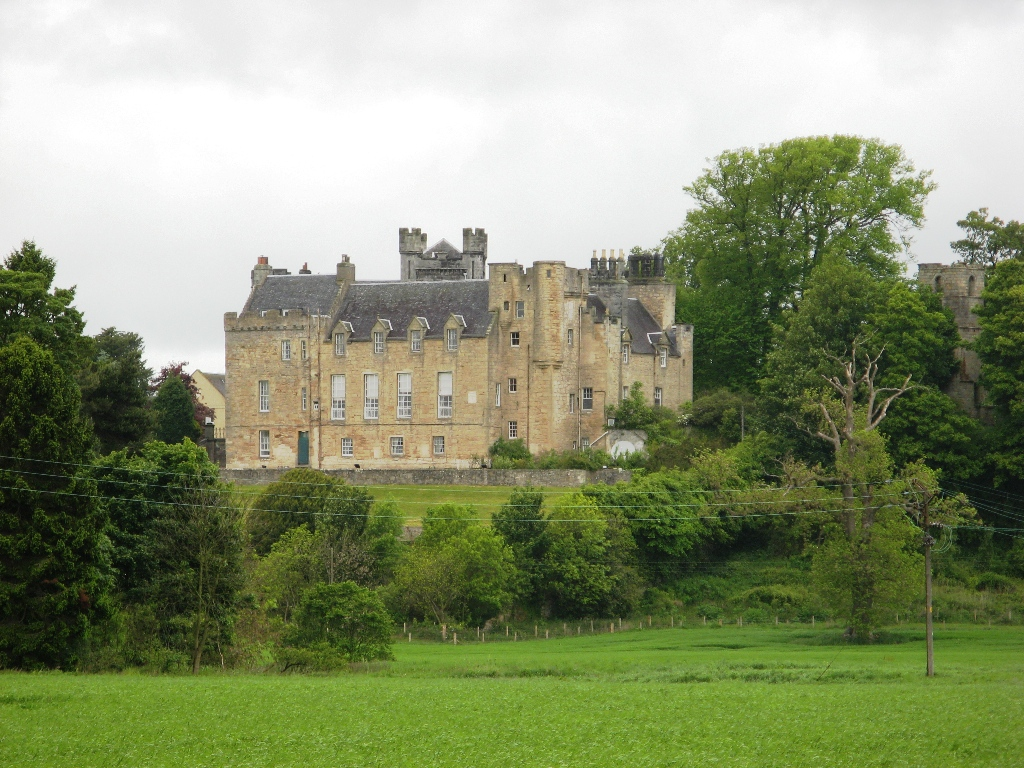 Airth Castle, near Falkirk, Scotland, seen across a field from the south